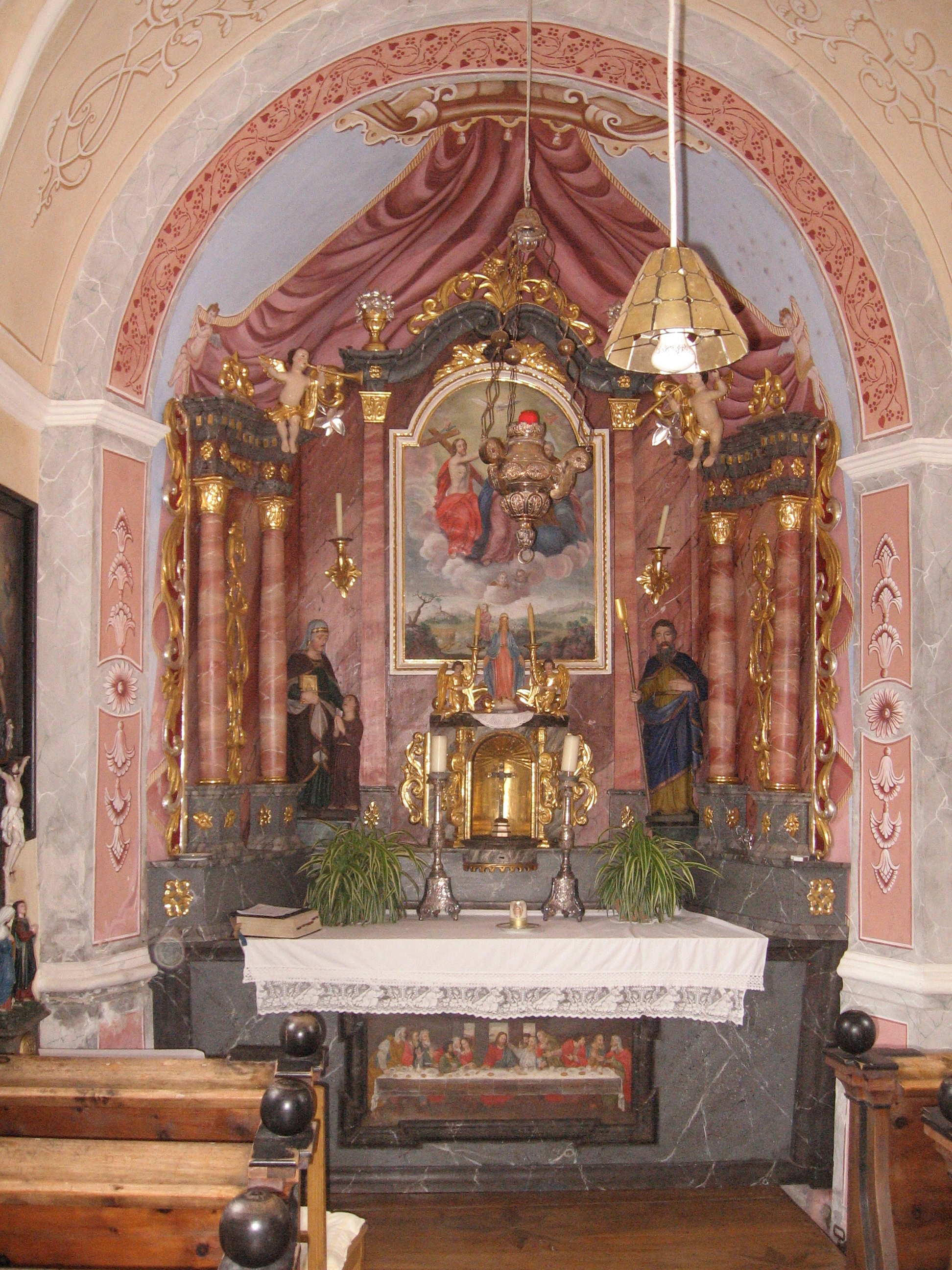 Cultural heritage monuments in Reißeck.